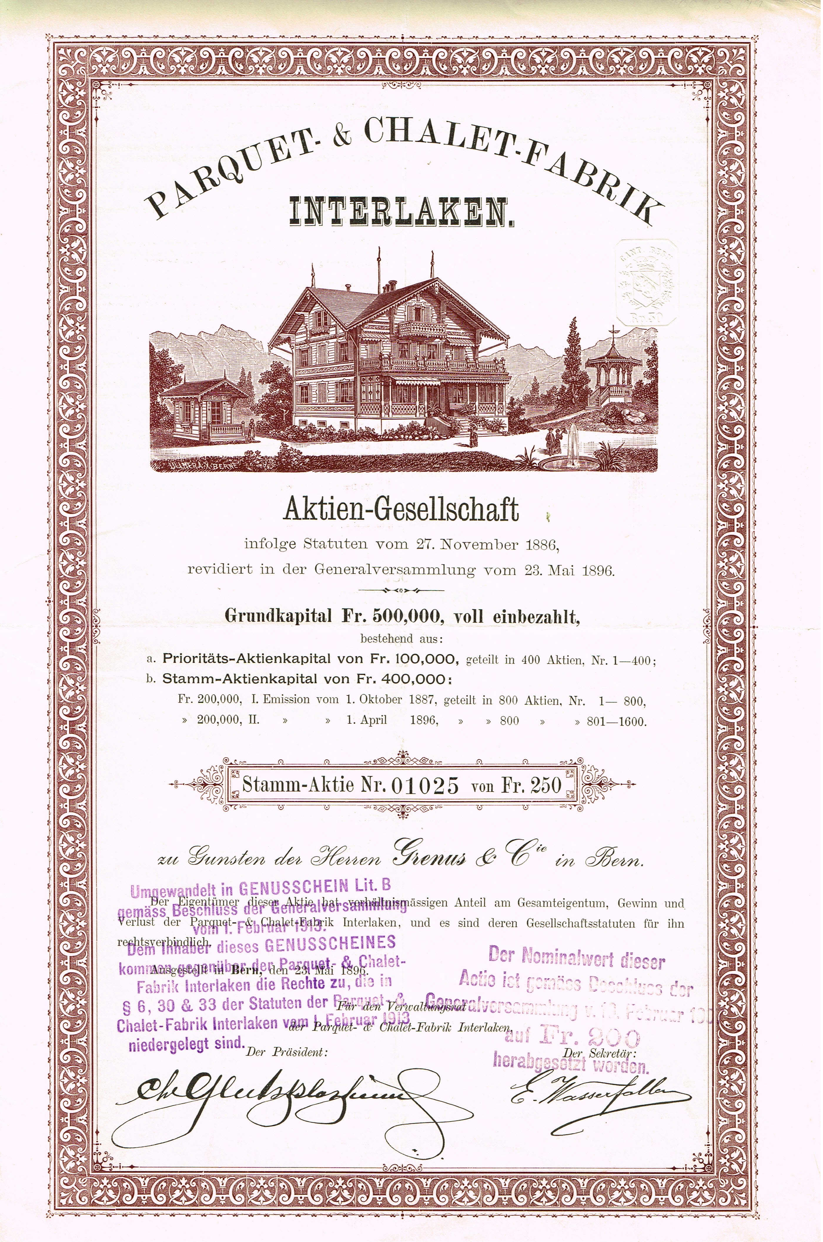 Share of the Parquet- & Chalet-Fabrik Interlaken, issued 23. May 1896